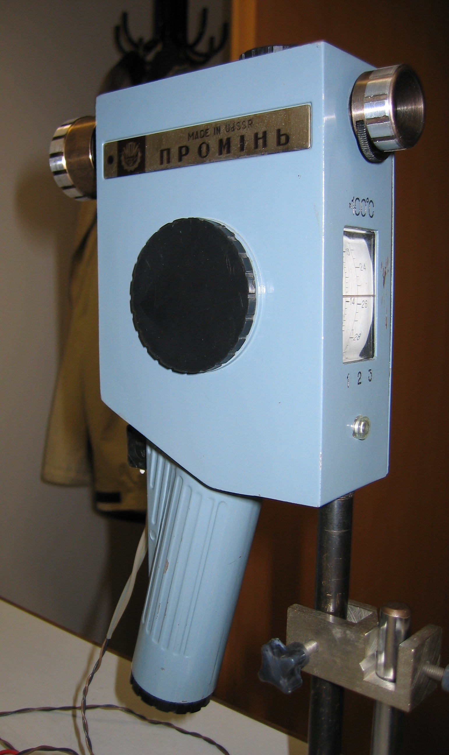 An optical pyrometer, photo taken at 2006-10-13 by MichiK